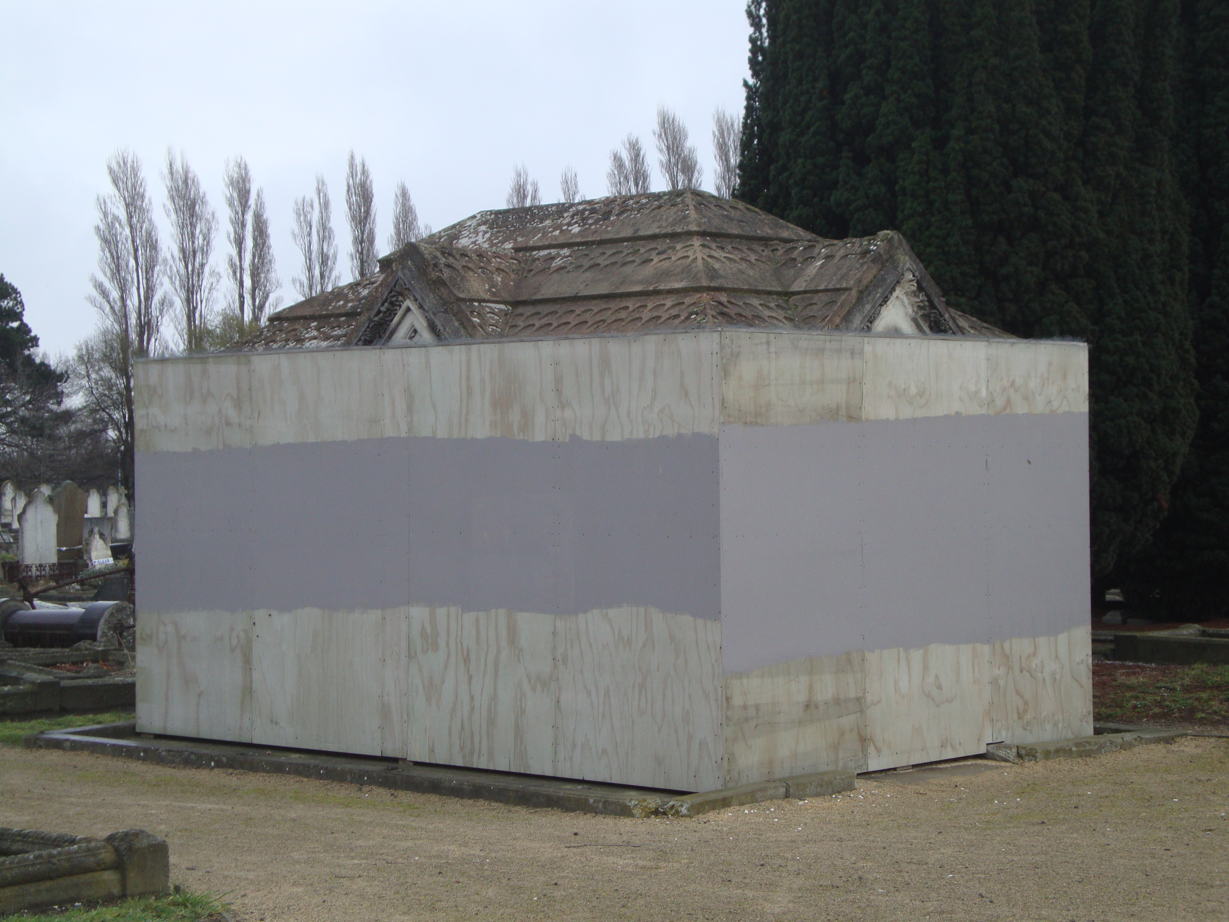 Peacock Mausoleum in Linwood Cemetery, Christchurch.